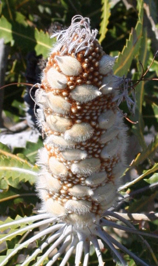 Young follicles on Banksia prionotes